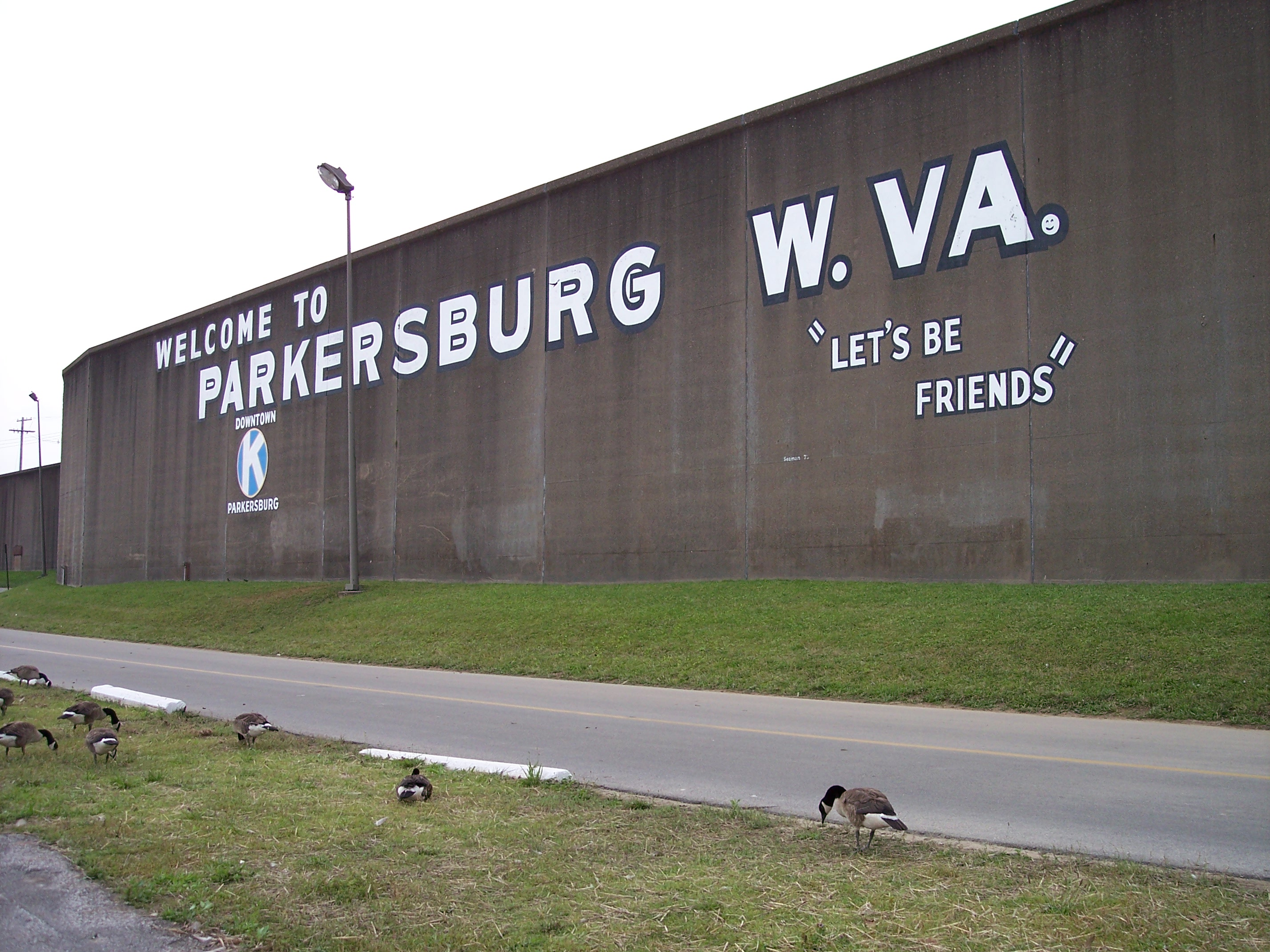 The floodwall of Parkersburg, West Virginia, along the Ohio River